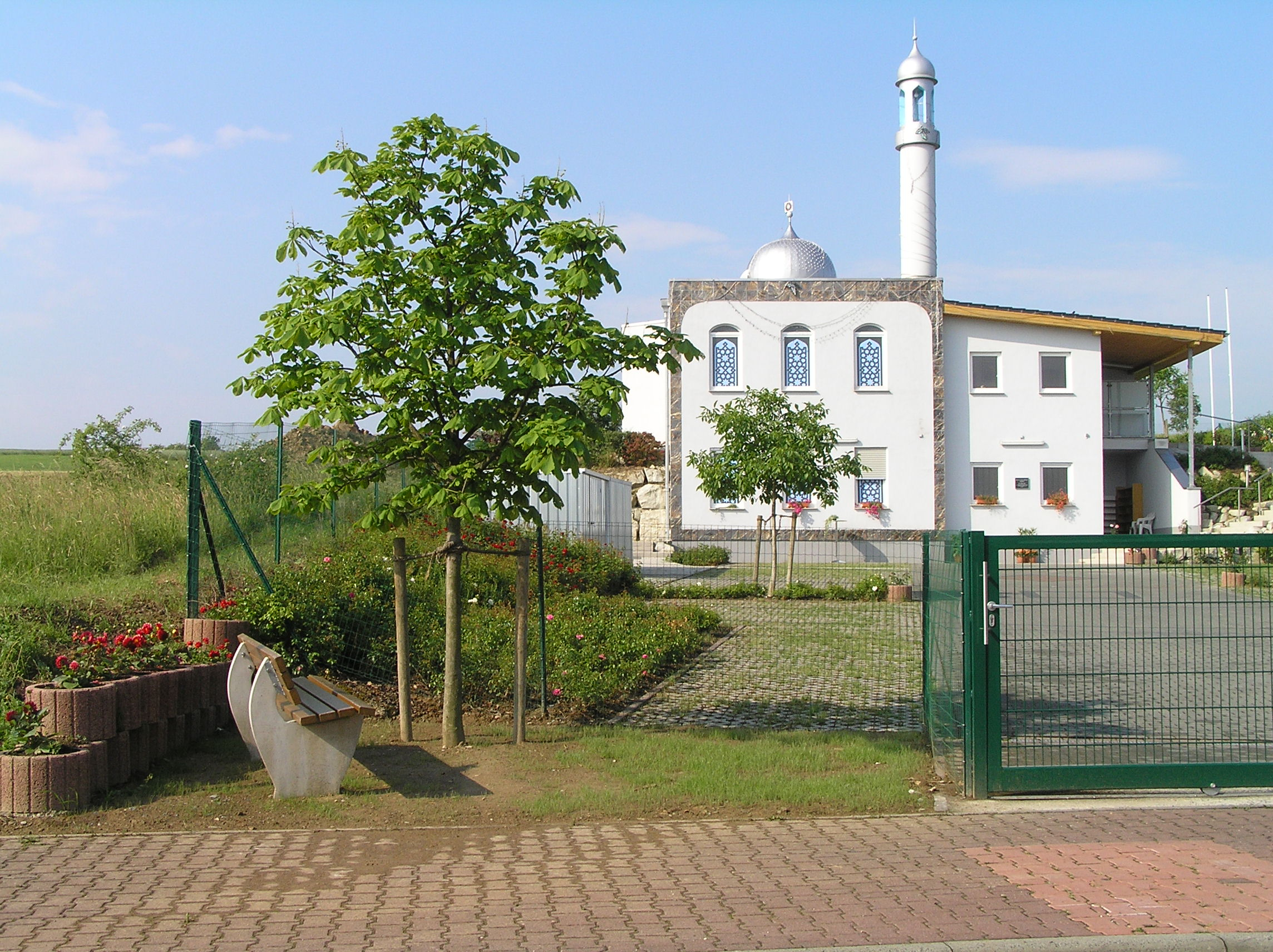 Baitul Huda Mosque in Usingen (Germany)